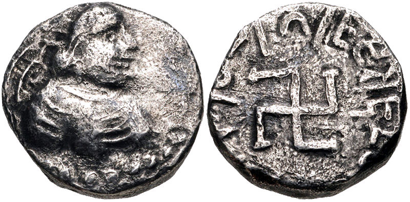 Paratarajas ruler Arjuna Circa 150-165 CE